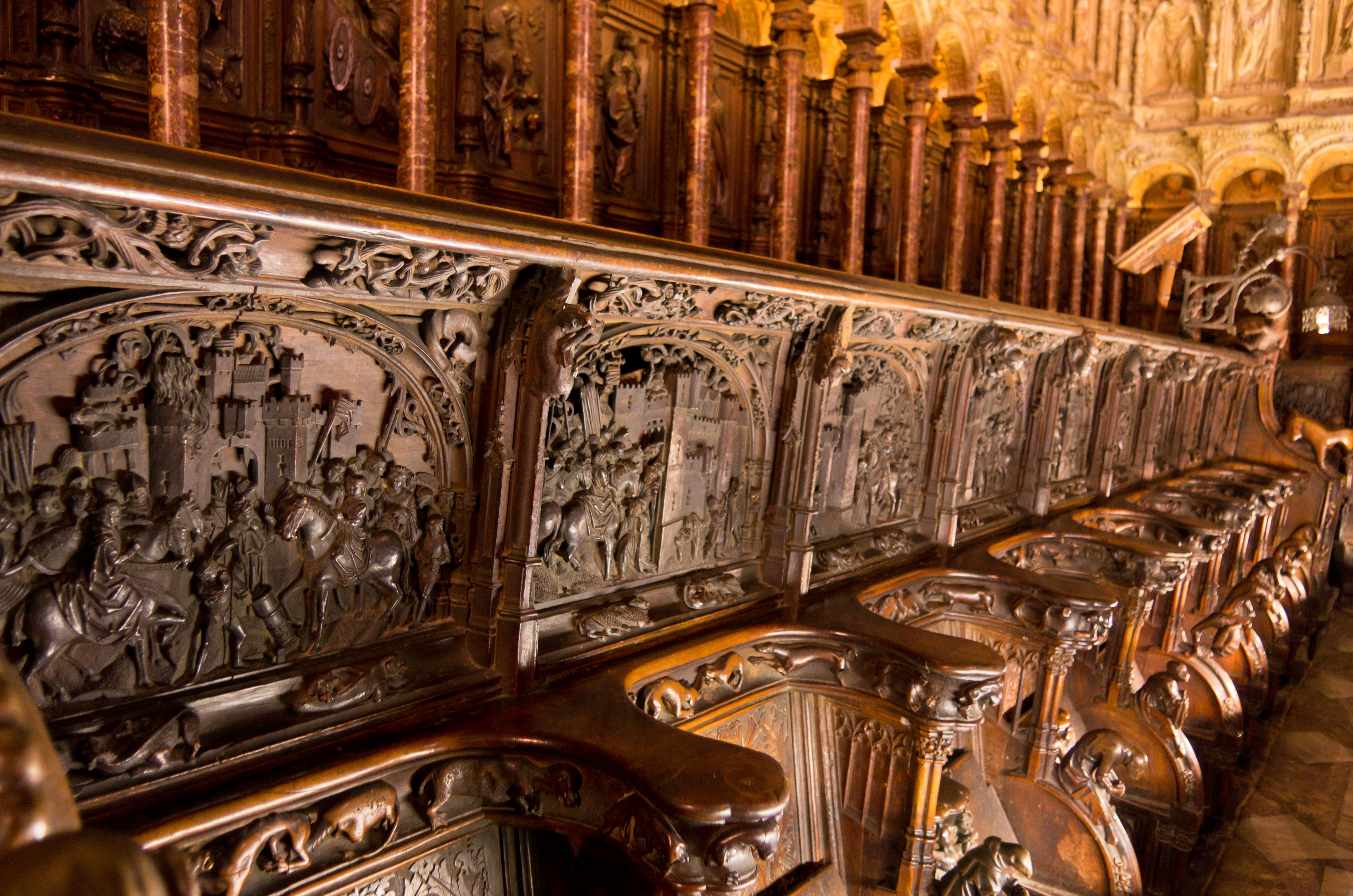 Choir stall of Cathedral of Toledo